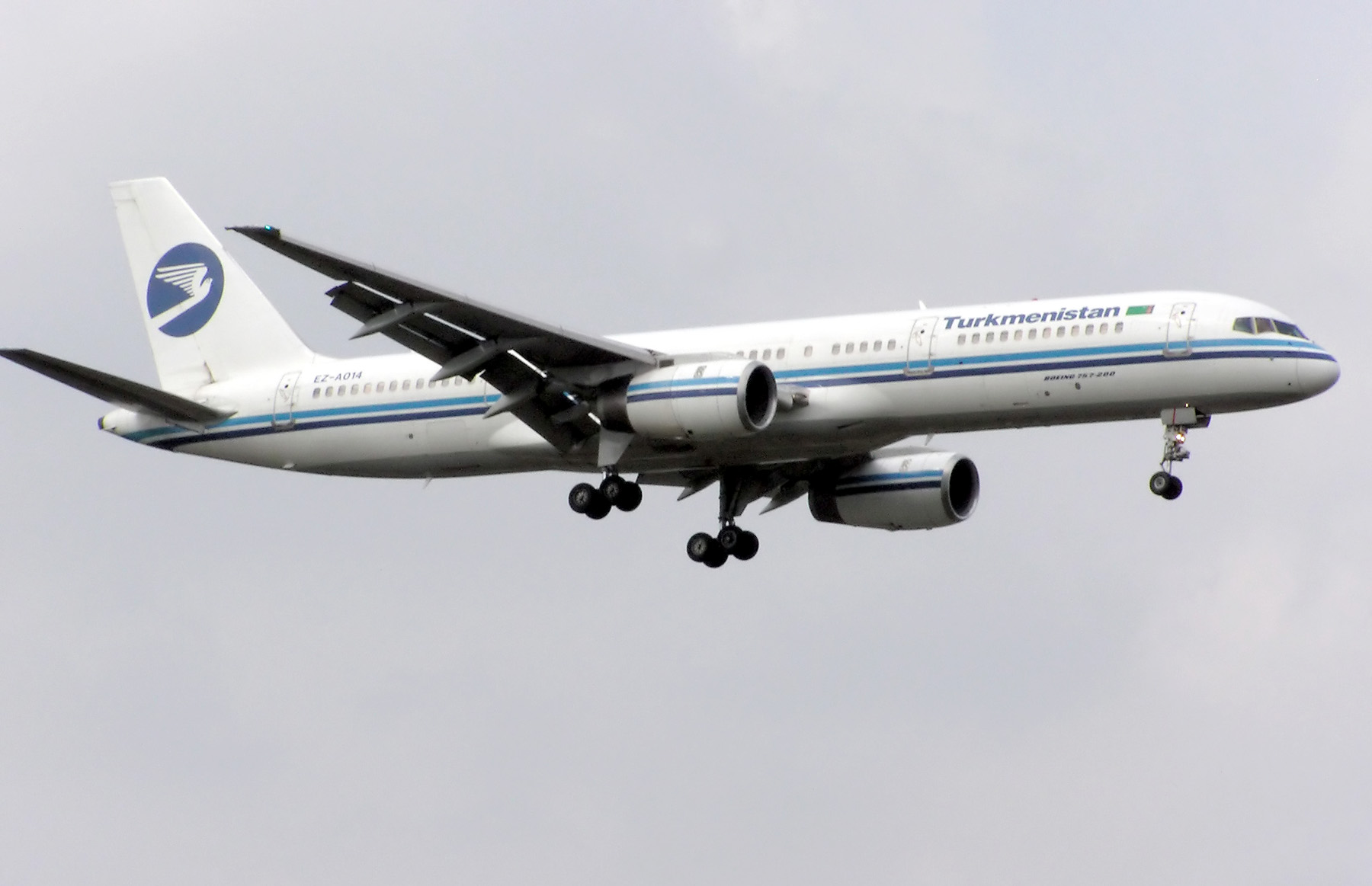 Turkmenistan Airlines Boeing 757-200 (EZ-A014) landing at London (Heathrow) Airport, England.